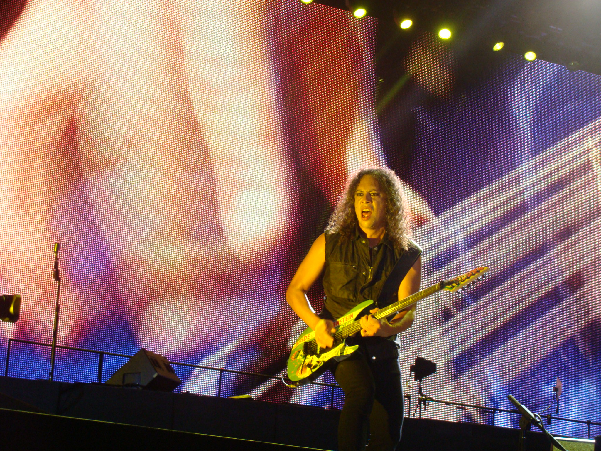 Metallica's guitarist Kirk Hammett playing at Morumbi Stadium, at São Paulo, Brazil.